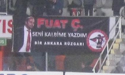 Fuat Ç. poster in 19 Mayıs Stadium.